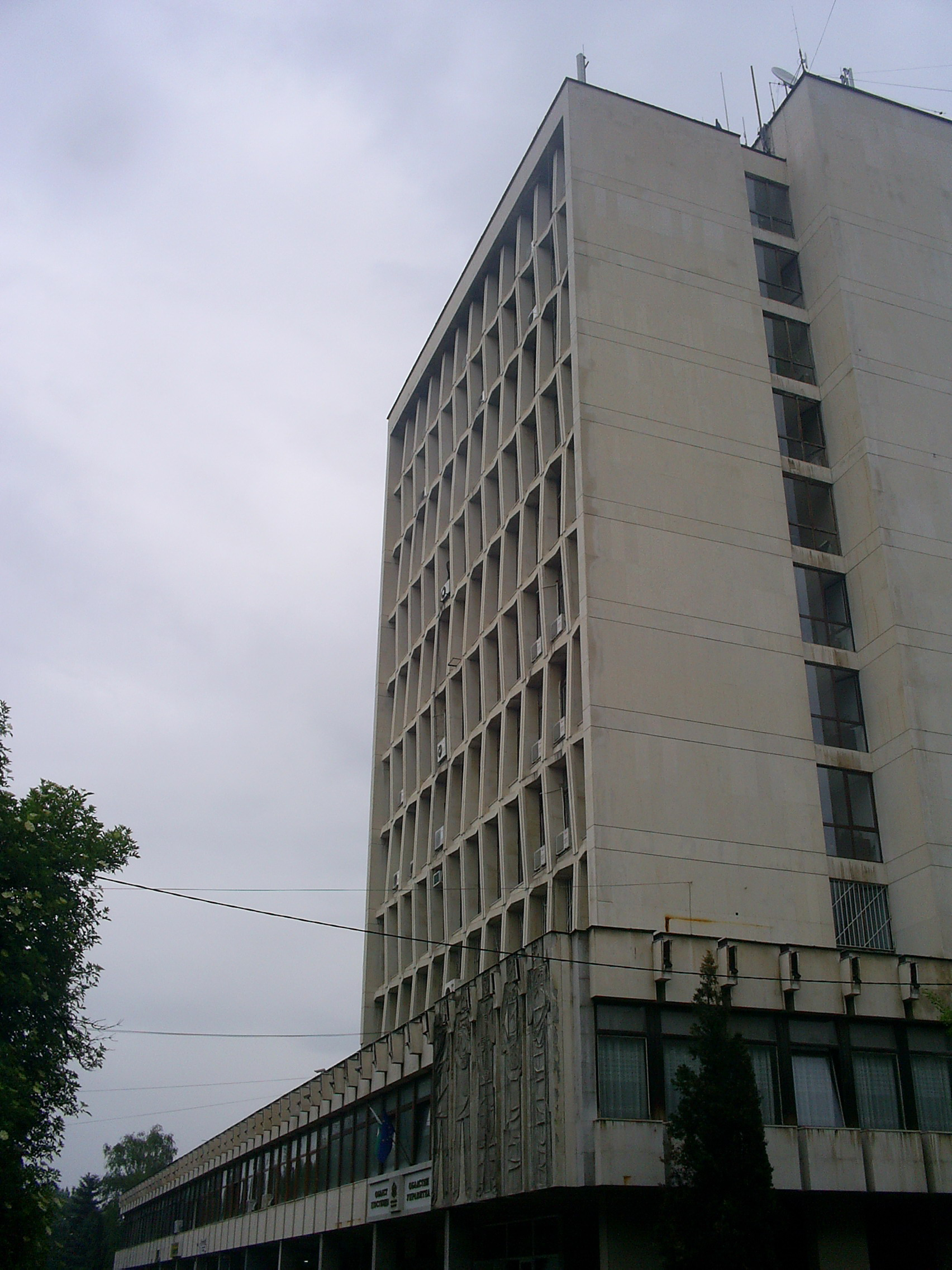 Kyustendil. The building of the district governor